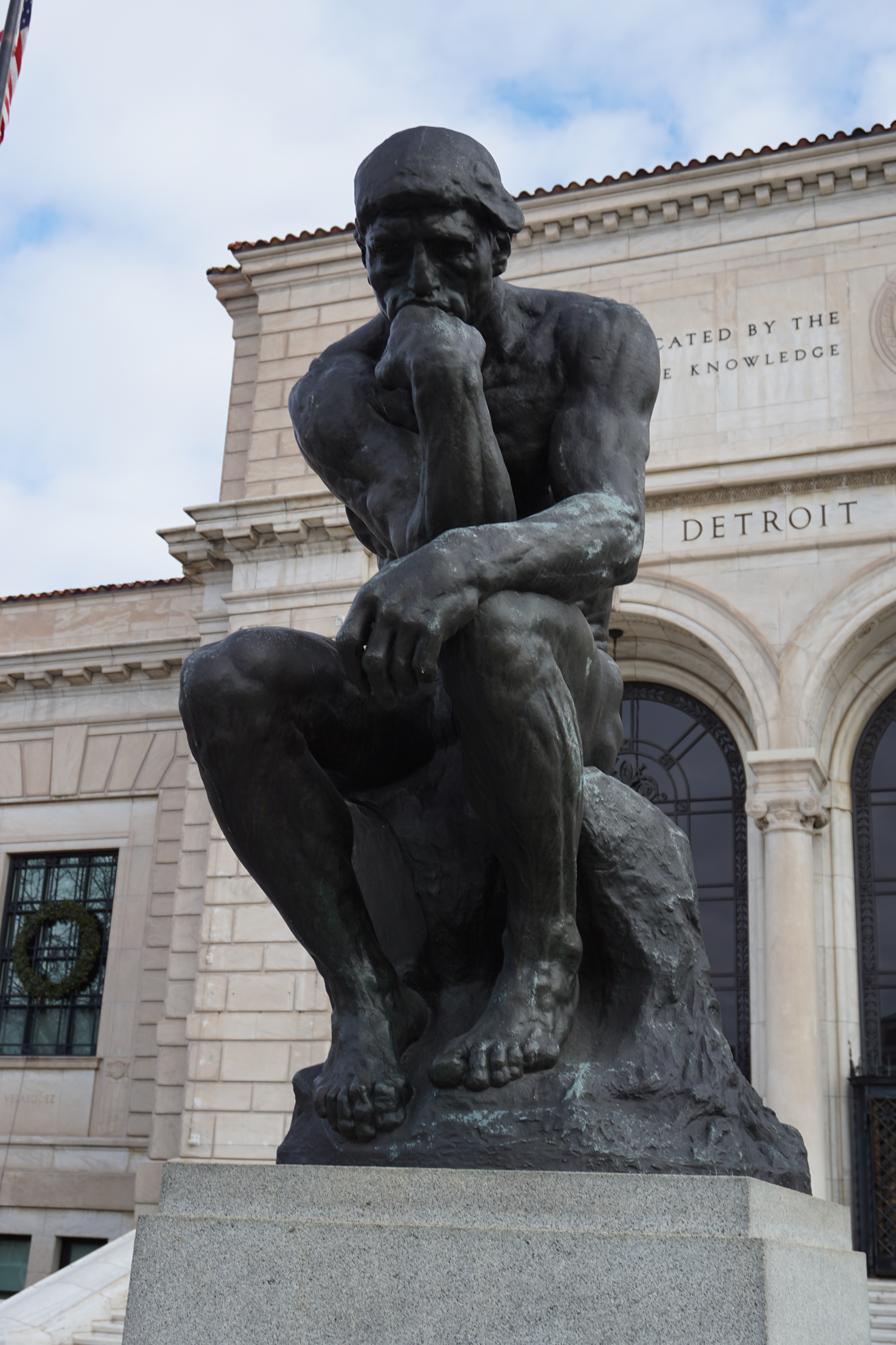 Auguste Rodin's The Thinker in front of the exterior of the (main) Woodward Entrance at the Detroit Institute of Arts in Detroit, Michigan (United States).